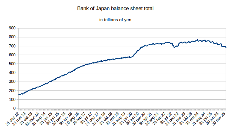 Balance sheet total Bank of Japan. Source: Bank of Japan website, .